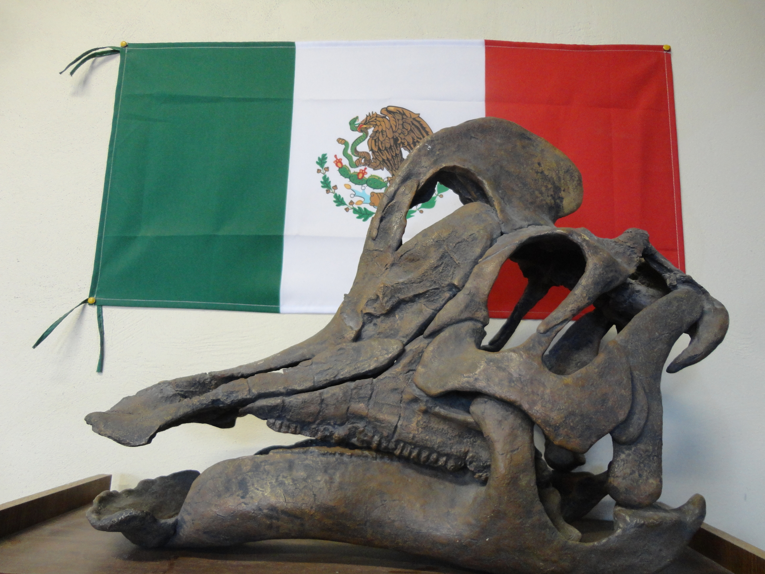 Velafrons coahuilensis skull at Desert Museum in Saltillo Coahuila, Mexico.